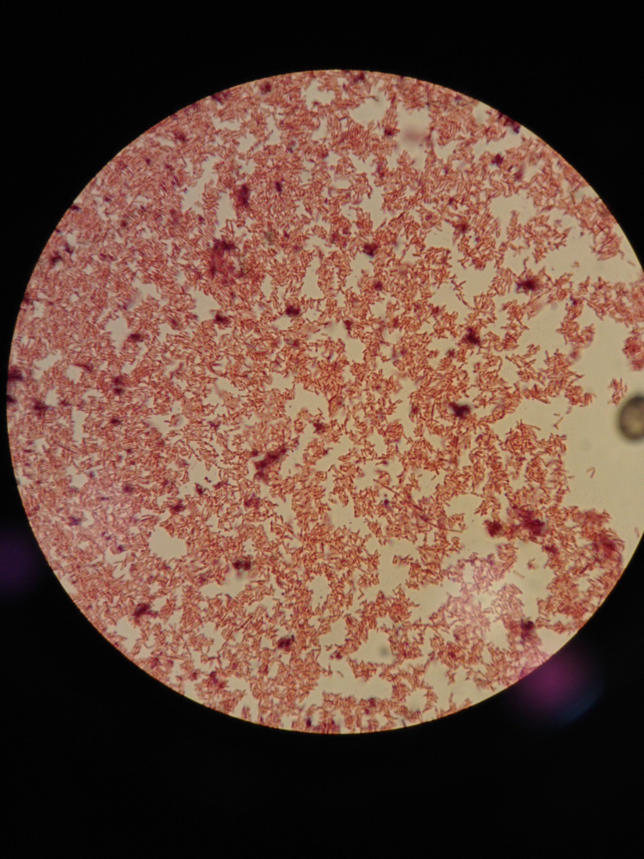 Bacteria gram-negative compound microscope with 400x objective